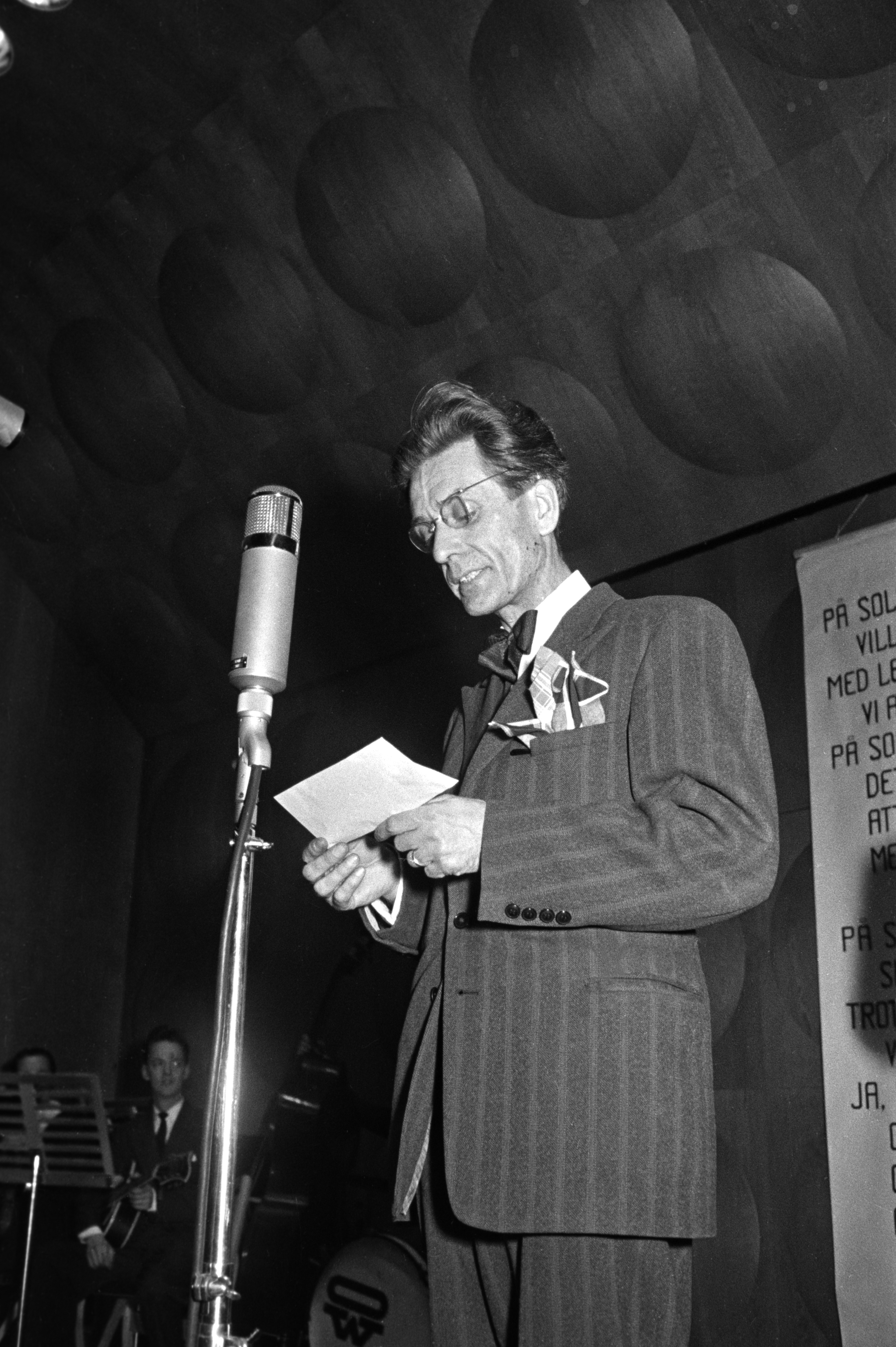 Photograph of the Finnish writer Kaj Lindgren (1908–1976) reading for a radio play. Photographed in the Swedish-language Hanken School of Economics in Helsinki.